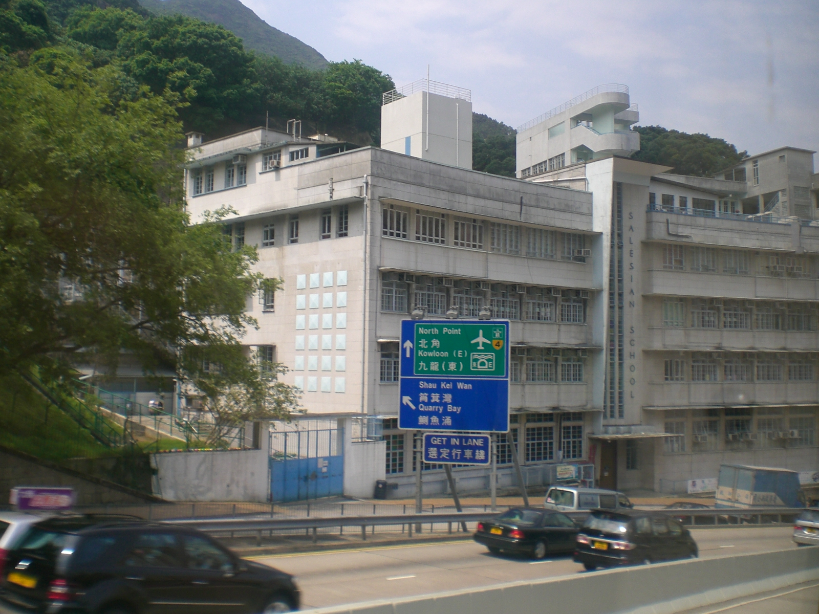 Shau Kei Wan Road, Hong Kong. 筲箕灣筲箕灣道 慈幼英文學校 Photo by me.